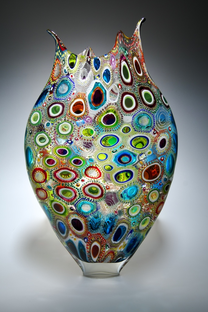 Example of blown glass utilizing murrine technique. 20" x 12" x 4.5". Created by David Patchen